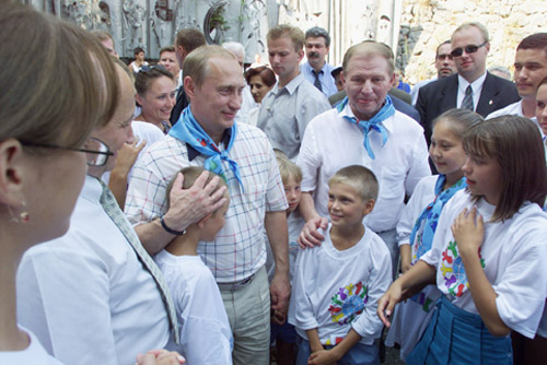 THE CRIMEA. President Putin with Ukrainian President Leonid Kuchma at the Artek international youth centre.